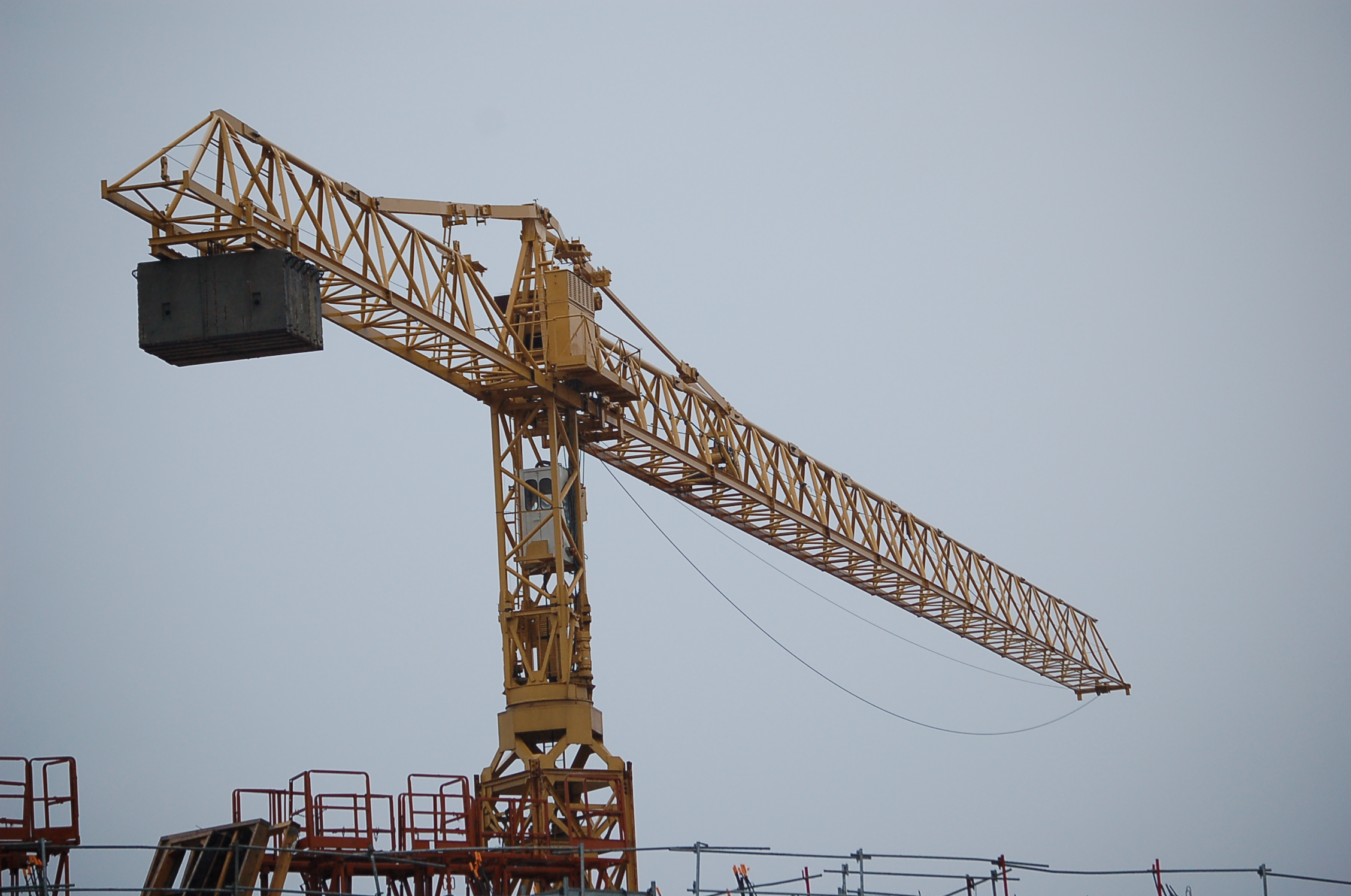 Crane.